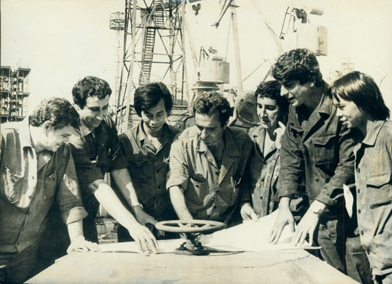 Workers at the "Georgi Dimitrov" shipyard in Varna.